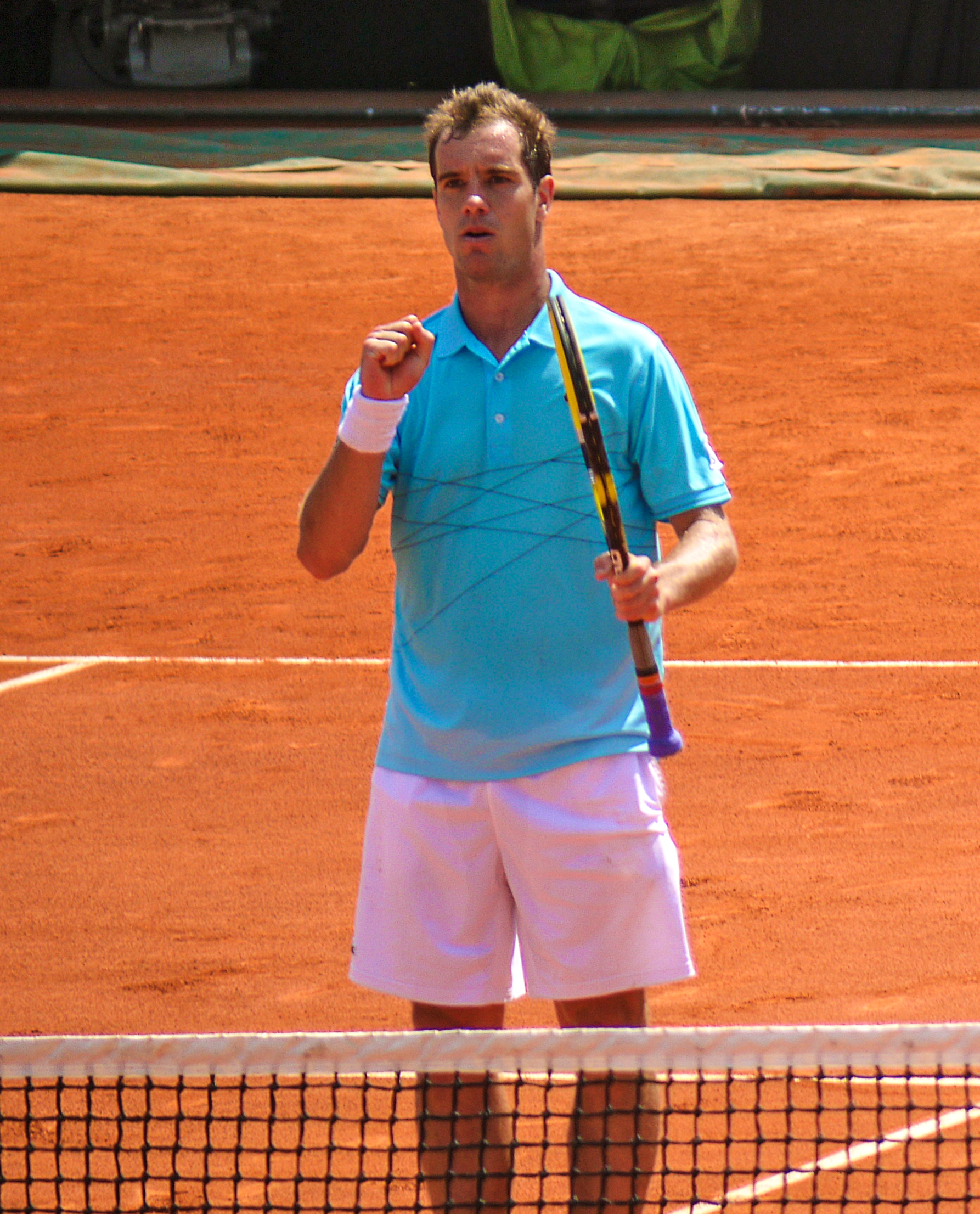 First round Roland Garros 2012: Richard Gasquet (FRA) def. Jurgen Zopp (EST)